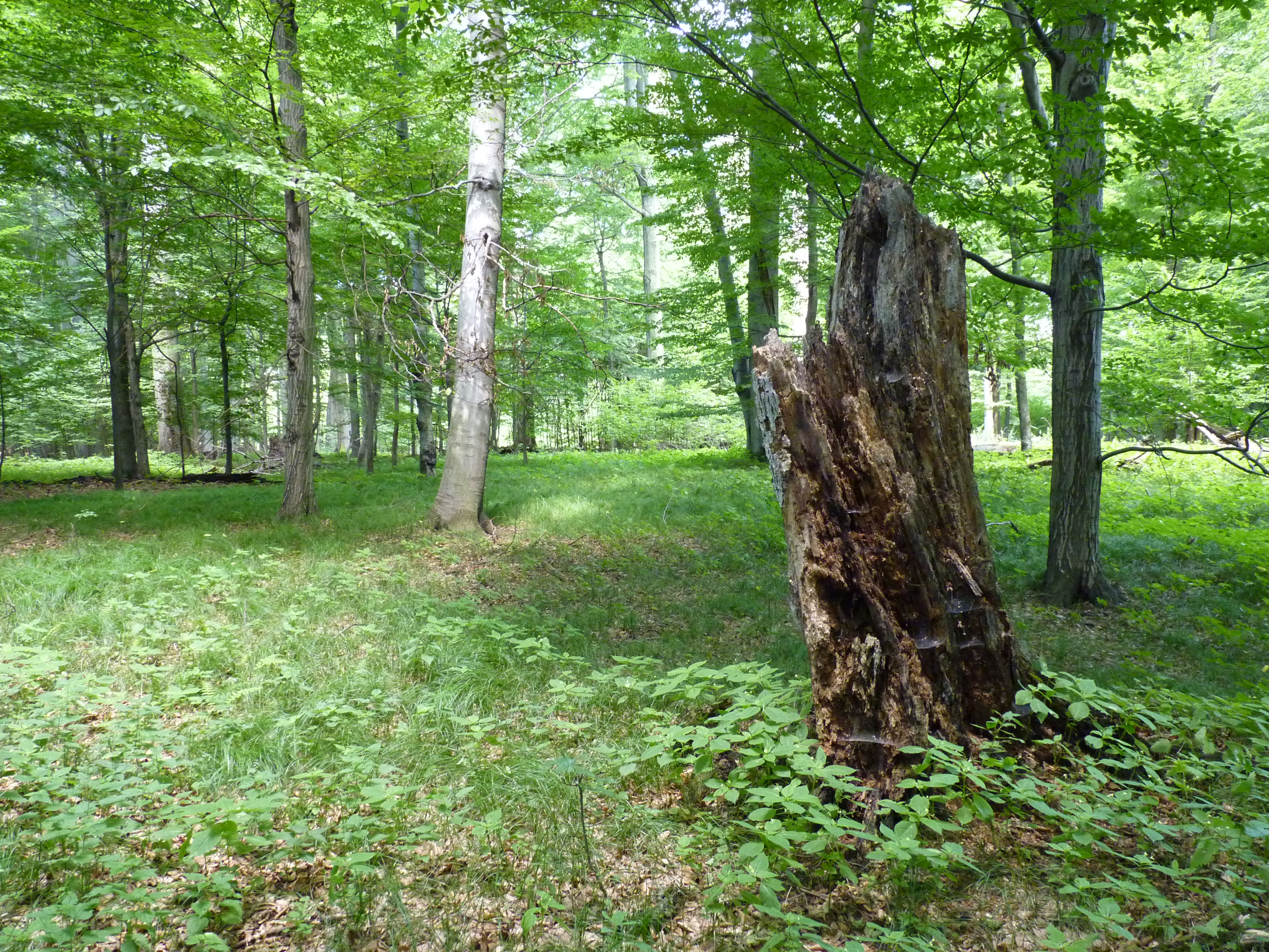 Nature reserve Černý les u Šilheřovic II. Opava District, Moravian-Silesian Region, Czech Republic